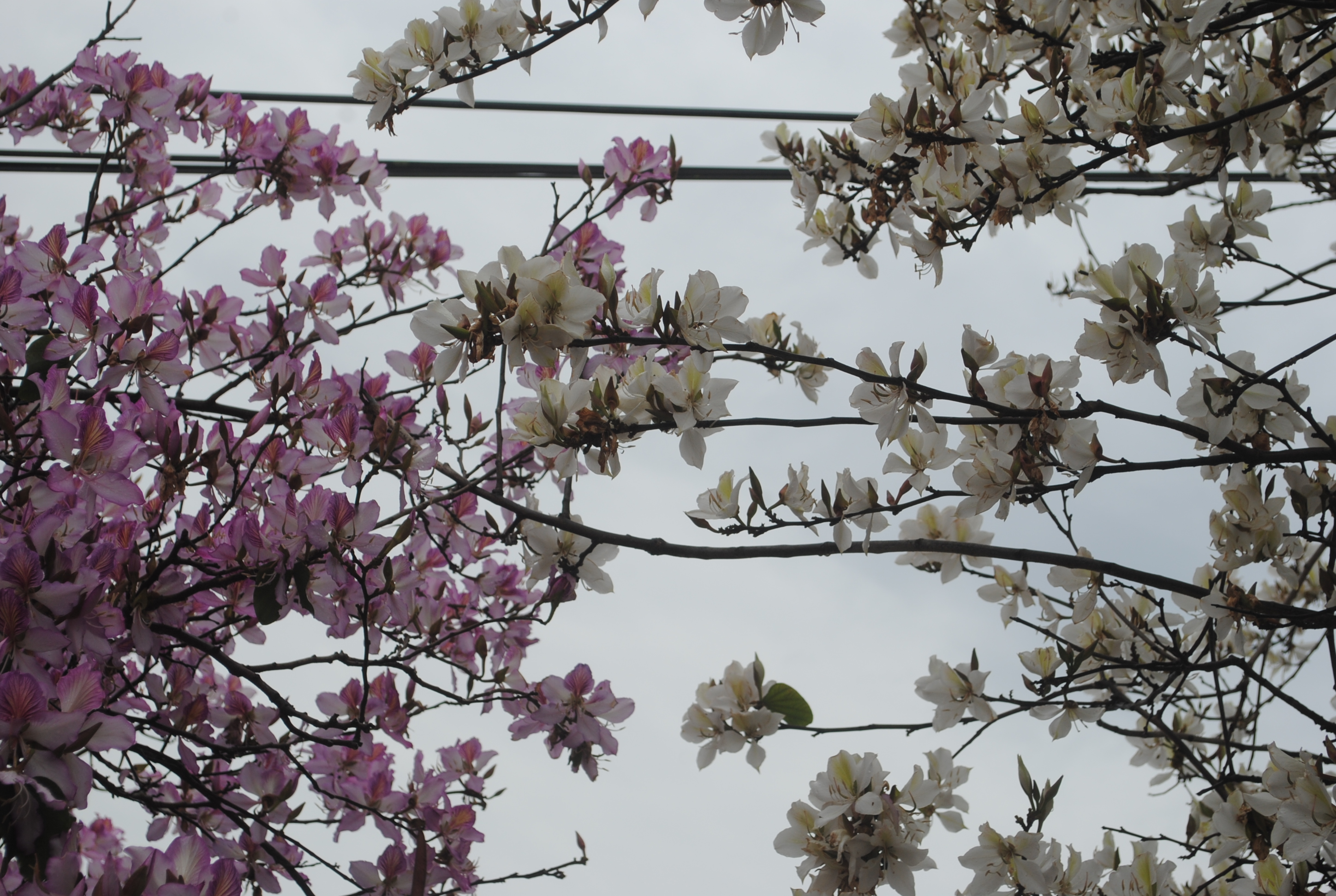 Bauhinia variagata var typica and var candida trees at flowering growing side by side